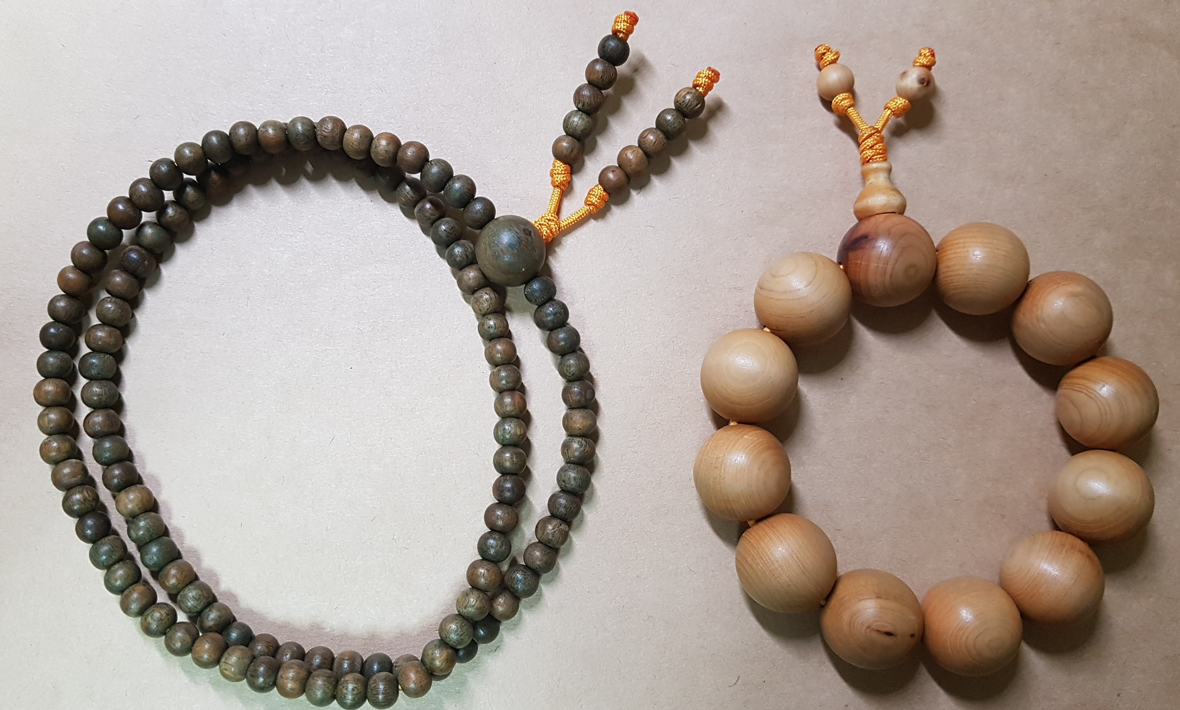 buddhist mala